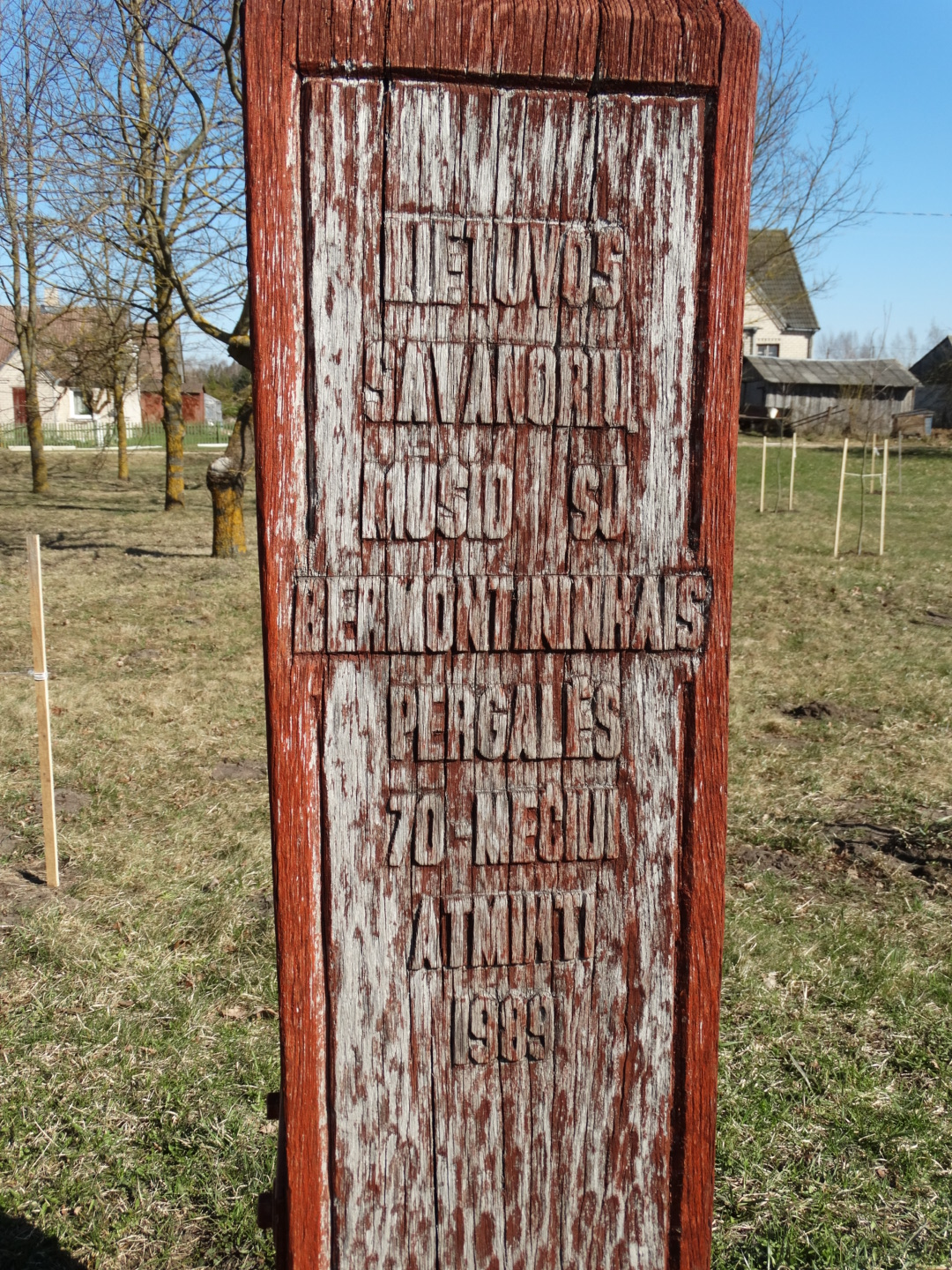 Vaiduliai, in memory of the battle in 1919, Radviliškis district, Lithuania